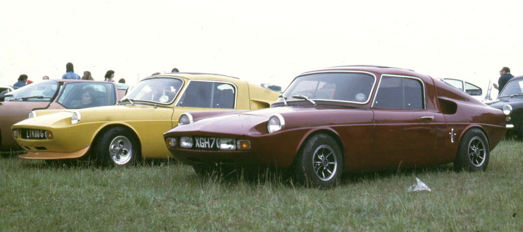 Two Unipower cars photographed by Malcolm Asquith in 1977